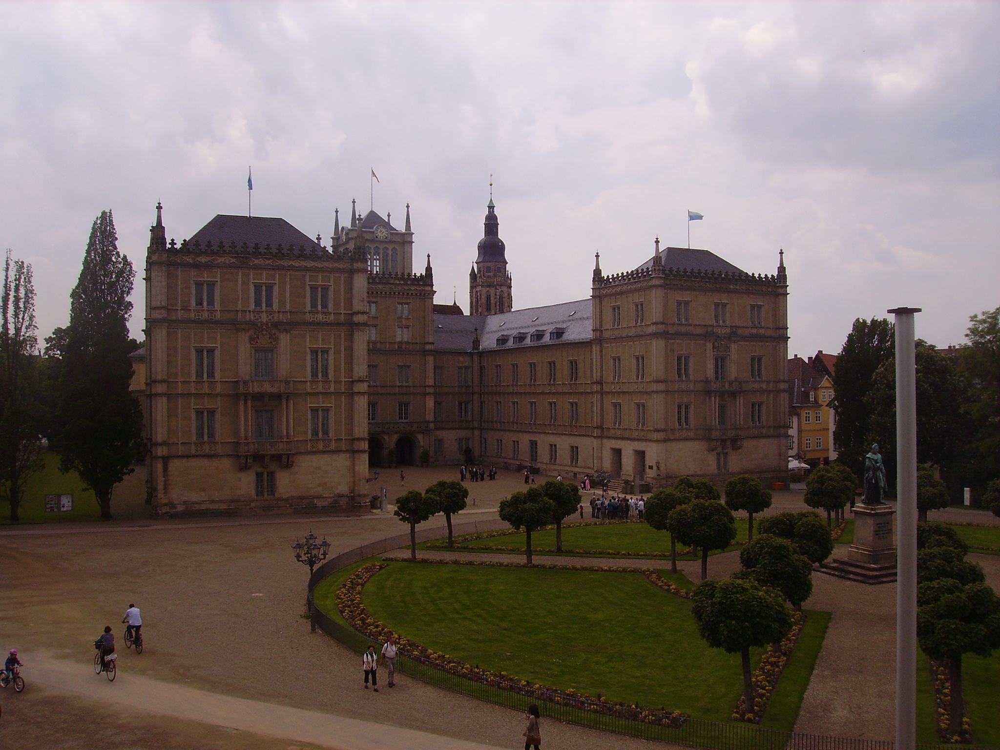 Ehrenburg Palace, Coburg